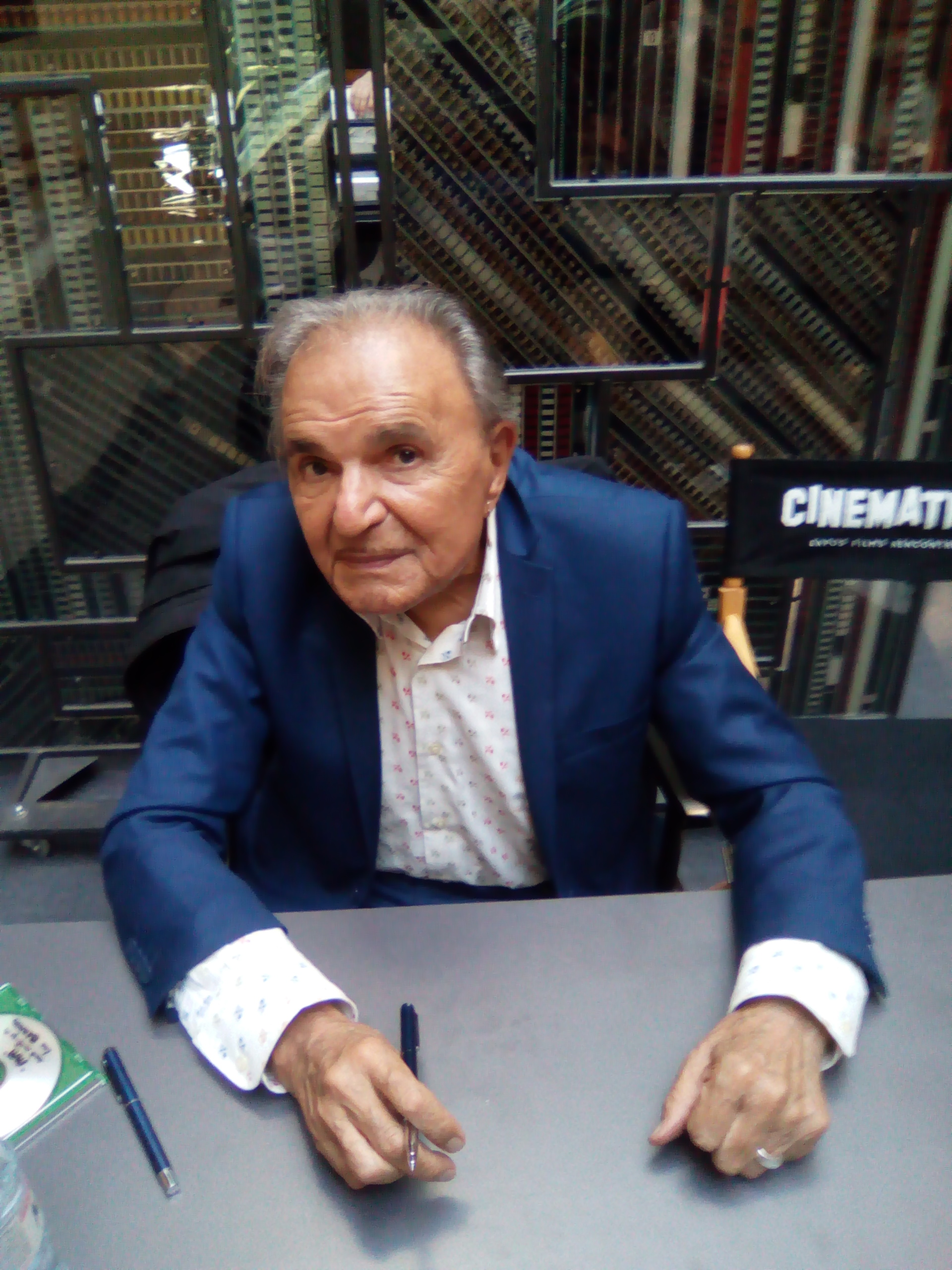 Actor Jean-Pierre Kalfon at a signing of his autobiography at the Cinémathèque française.